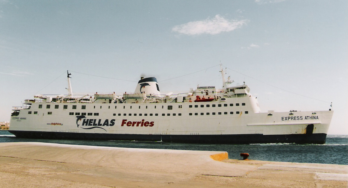 the Express Athina on the way from Tinos to Pireus